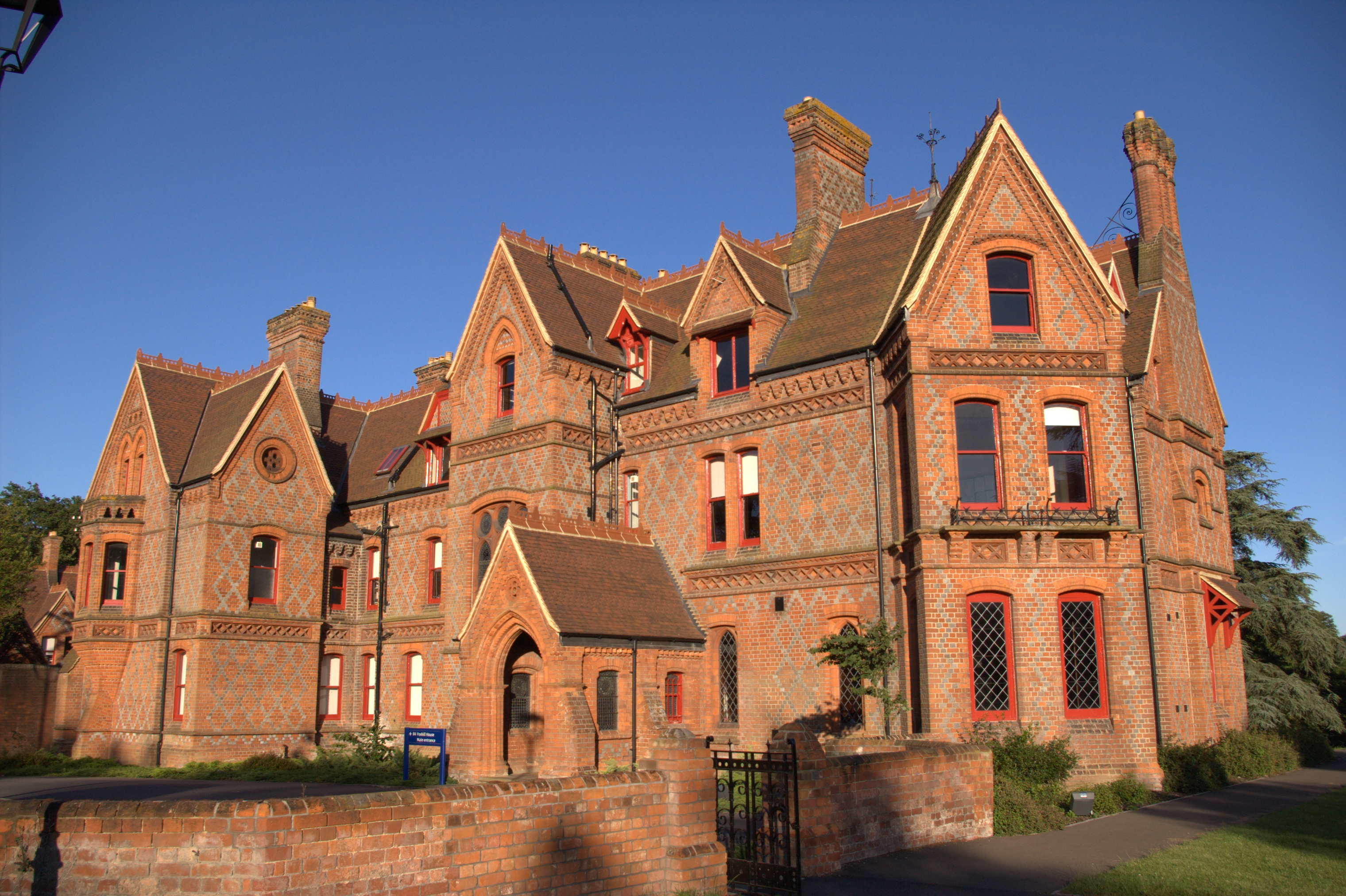 Foxhill House, seen across the lake in Whiteknights Park, the principal campus of the University of Reading, in Reading, England. The building now houses the universiy's School of Law. For more information, see the Wikipedia article Foxhill House.